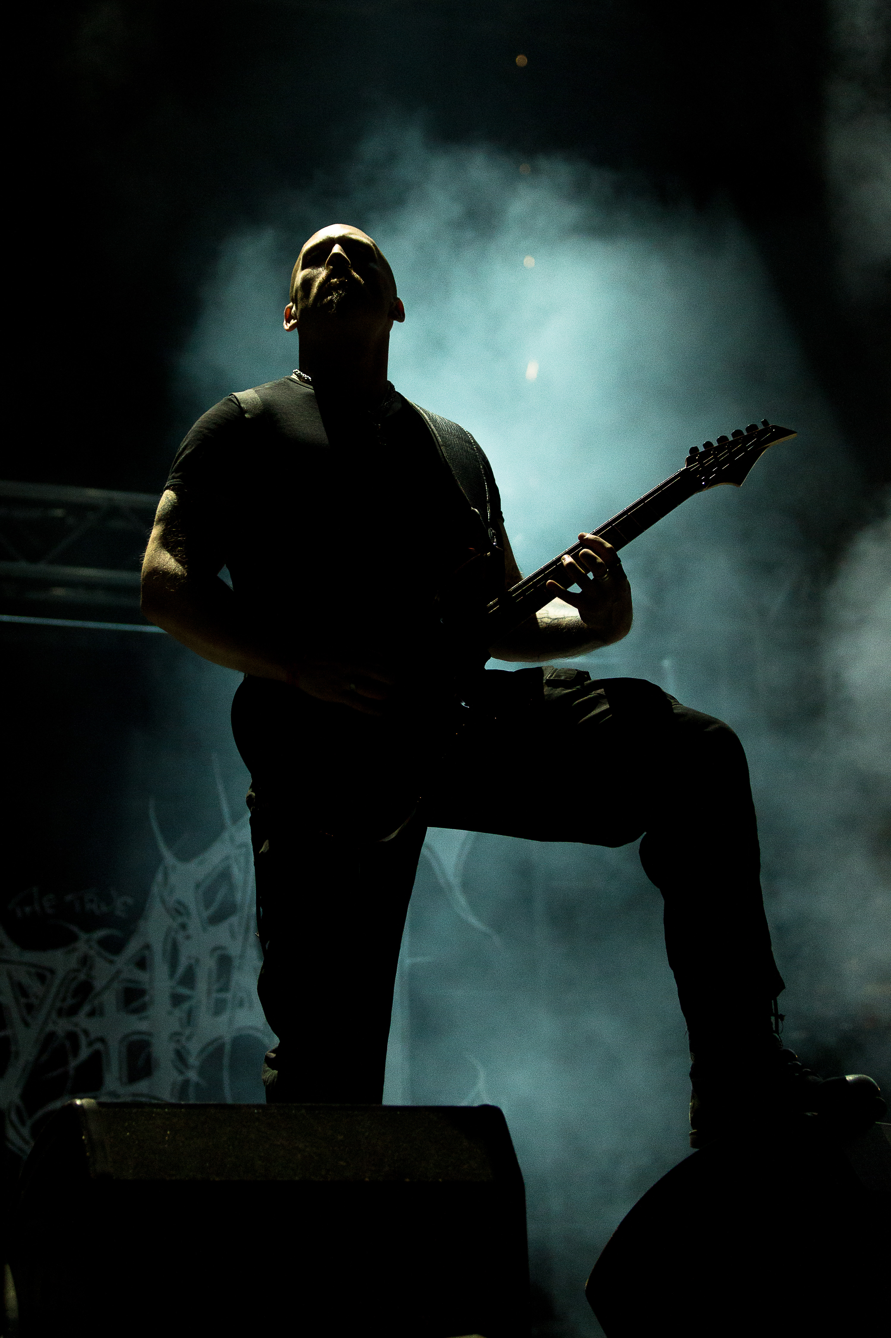 The Norwegian extreme metal band Mayhem at the Party.San Open Air 2015 in Obermehler-Schlotheim/Germany.